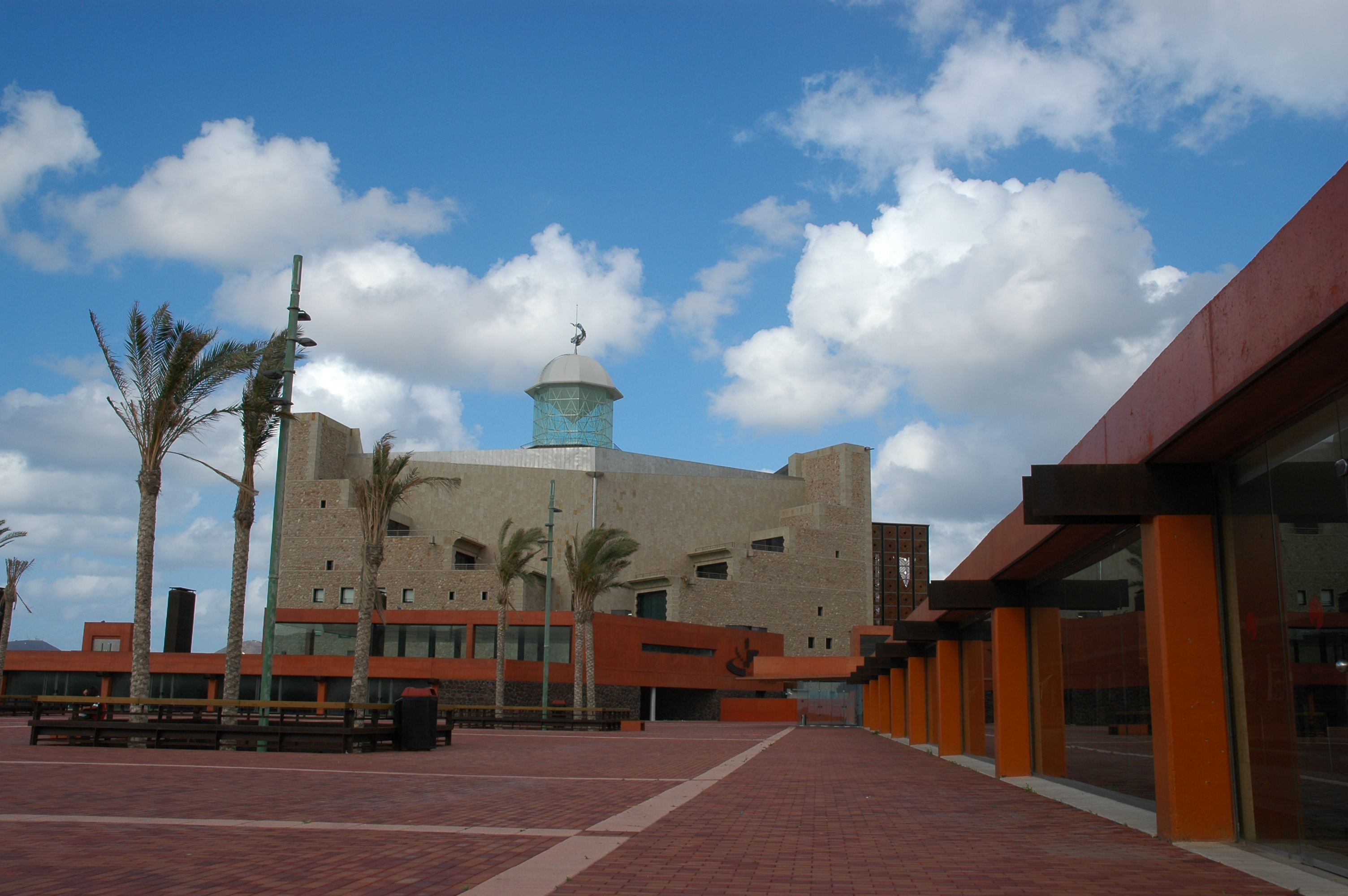 “Alfredo Kraus” Auditorium and Music Square. Las Palmas de Gran Canaria, Canary Islands.